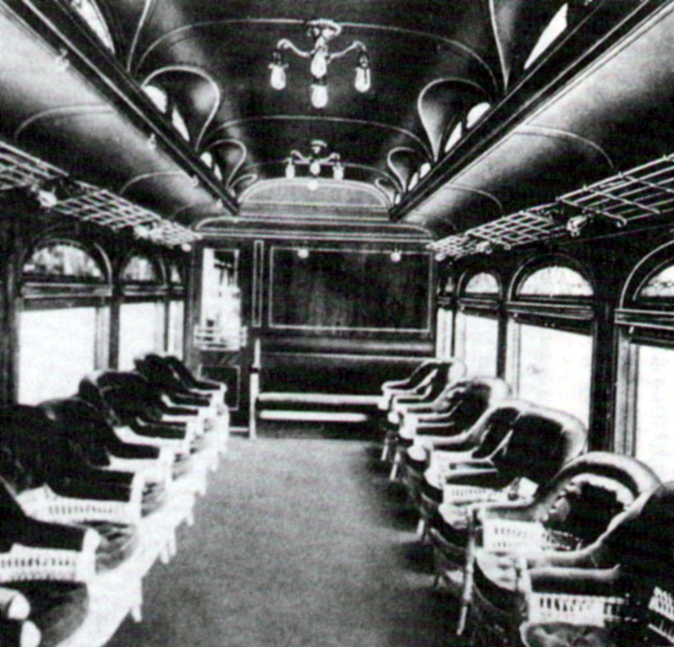 Oregon Electric Railway. Historical images of Beaverton, Oregon.